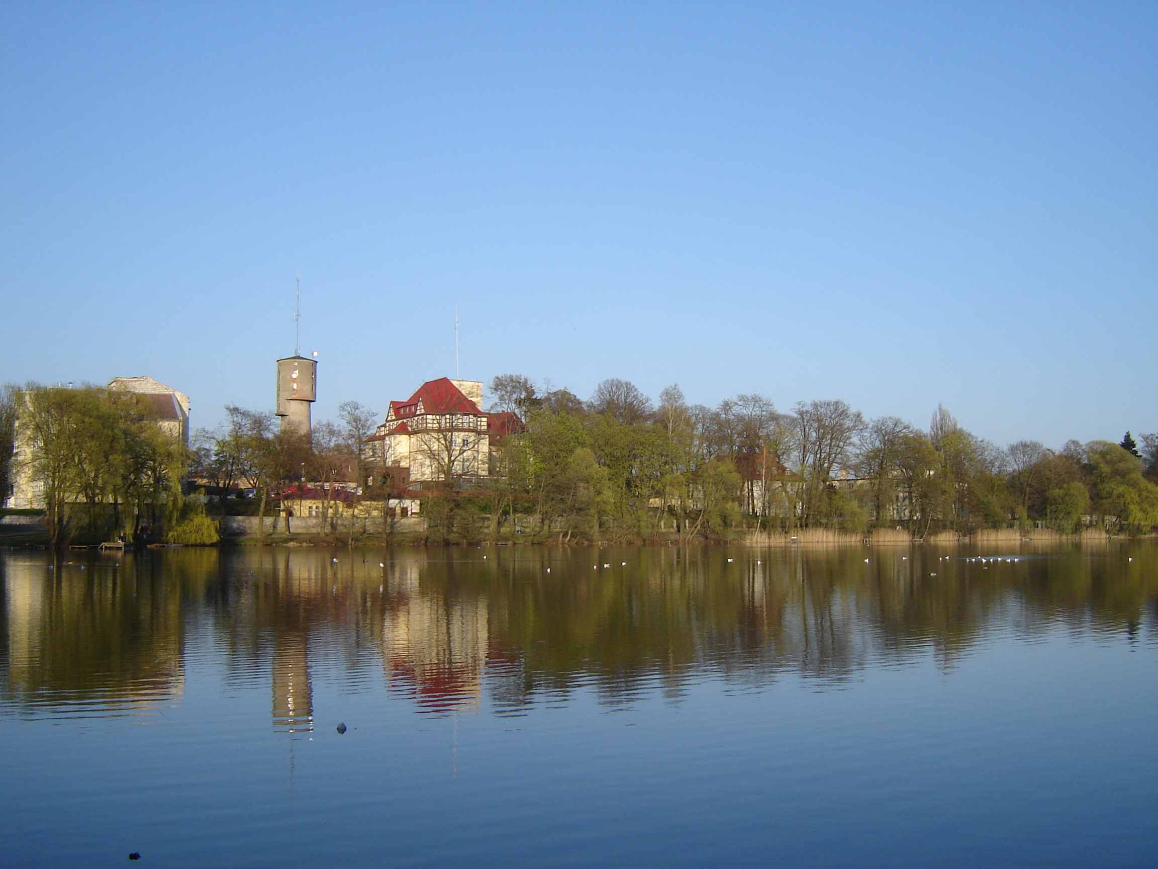 Panoramic view of Kluki Lake.